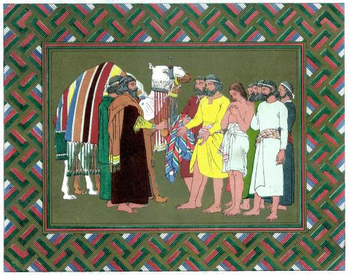 Illustration by Owen Jones from "The History of Joseph and His Brethren" (Day & Son, 1869). Scanned and archived at where it was marked as Public Domain. Text from Book: Then there passed by Midianites, merchantmen; and they drew up and lifted Joseph out of the pit, and sold Joseph to the Ishmeelites for twenty pieces of silver and they brought Joseph into Egypt. Genesis, C. XXXVIII. V. 28.